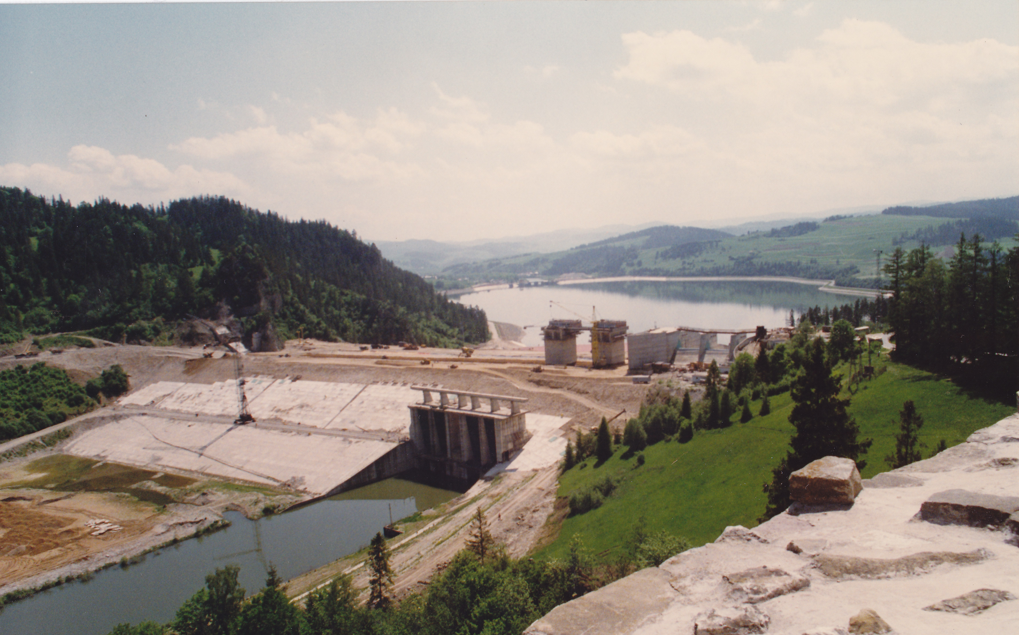 Niedzica dam construction taken from Niedzica Castle